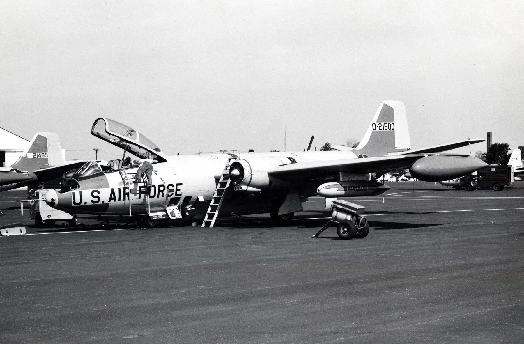 A U.S. Air Force Martin EB-57B Canberra of the 117th Defense Systems Evaluation Squadron, 190th Defense Systems Evaluation Group, Forbes AFB, Kansas Air National Guard (originally B-57B S/N 52-1500 with RB-57A 52-1499 in the background).